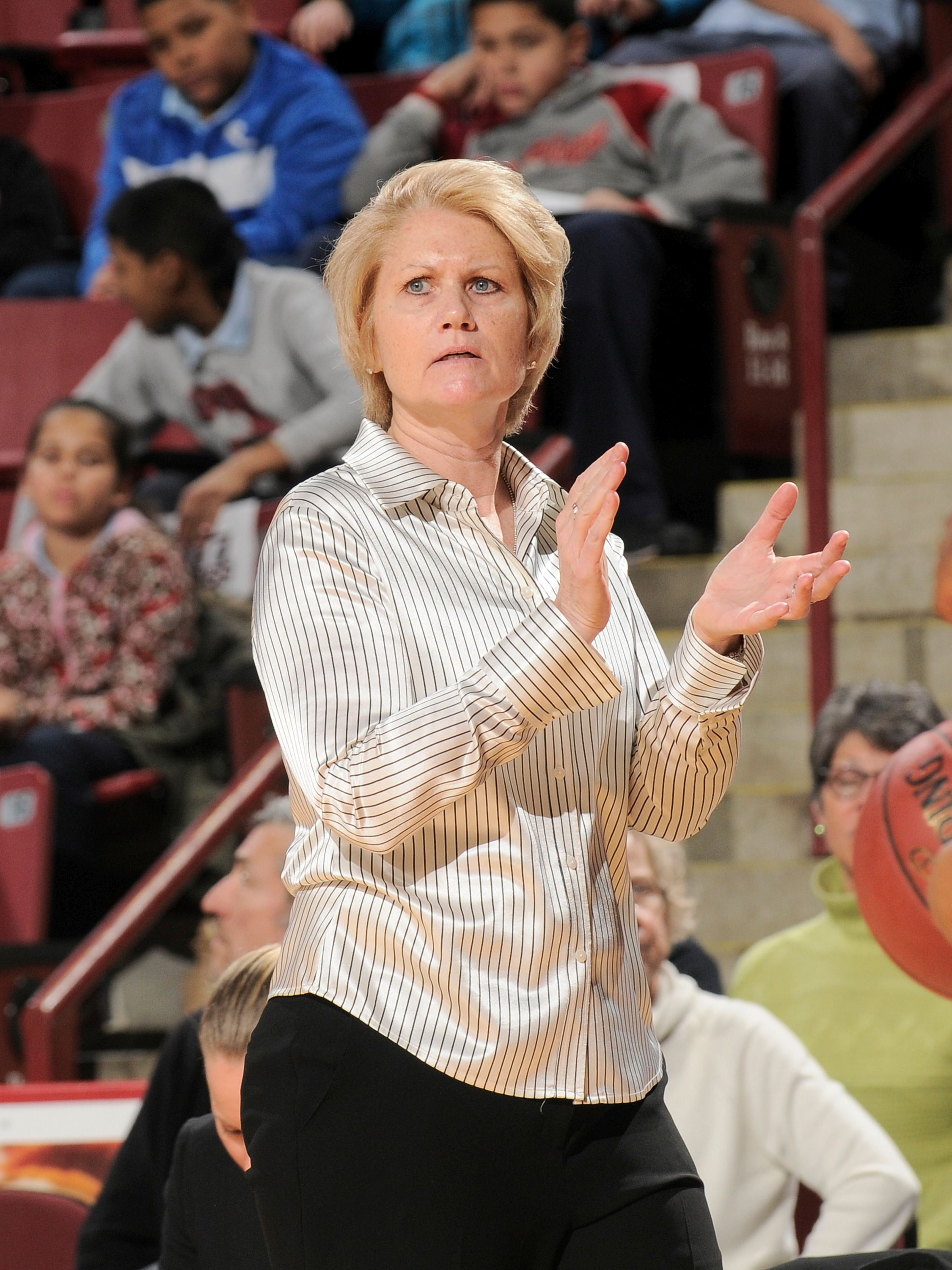 Dawley Sharon Action